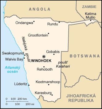 Map of Namibia with Czech description.